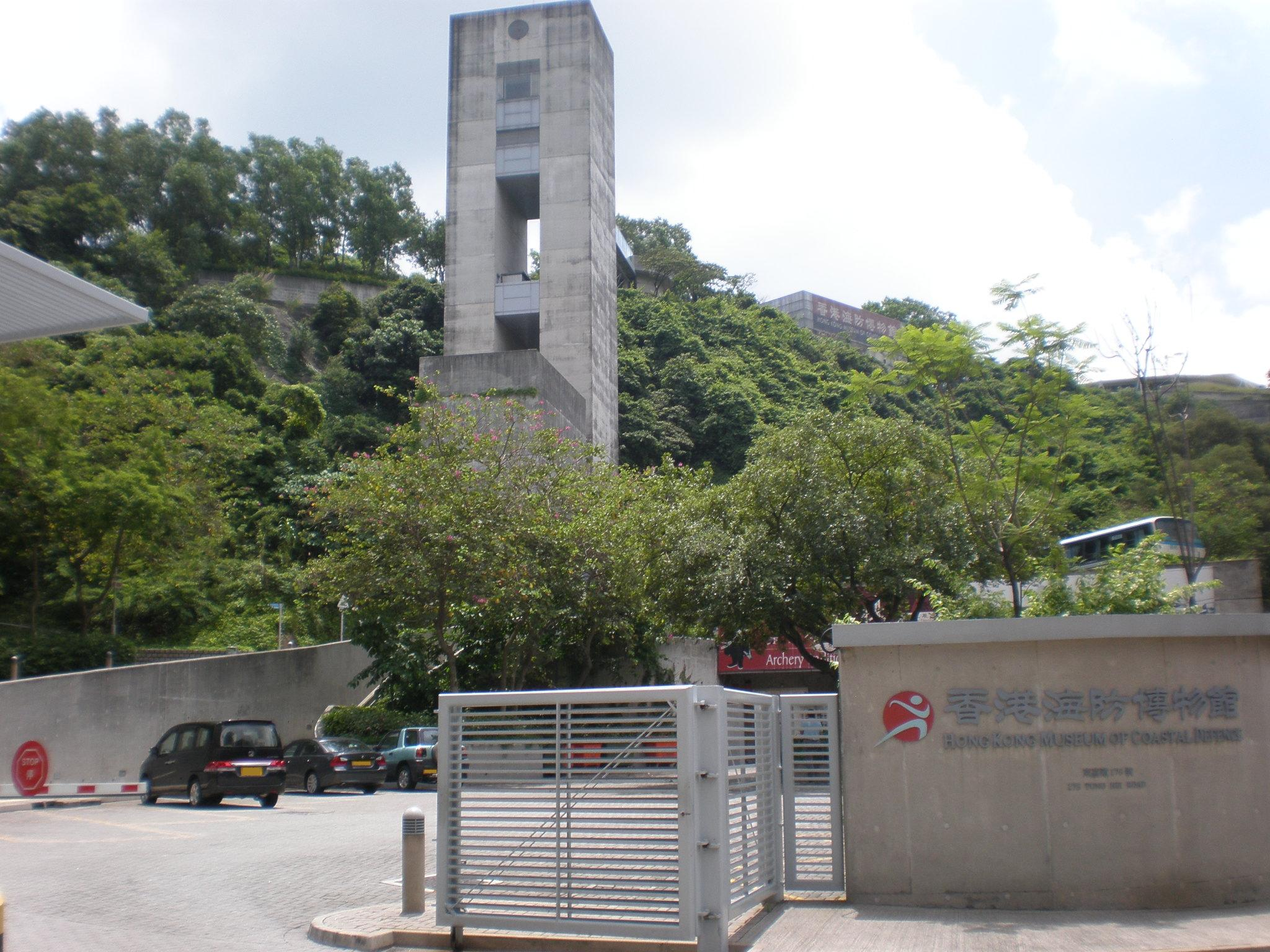 The Hong Kong Museum of Coastal Defence as seen from the entrance on Tung Hei Road in Shau Kei Wan on Hong Kong Island.